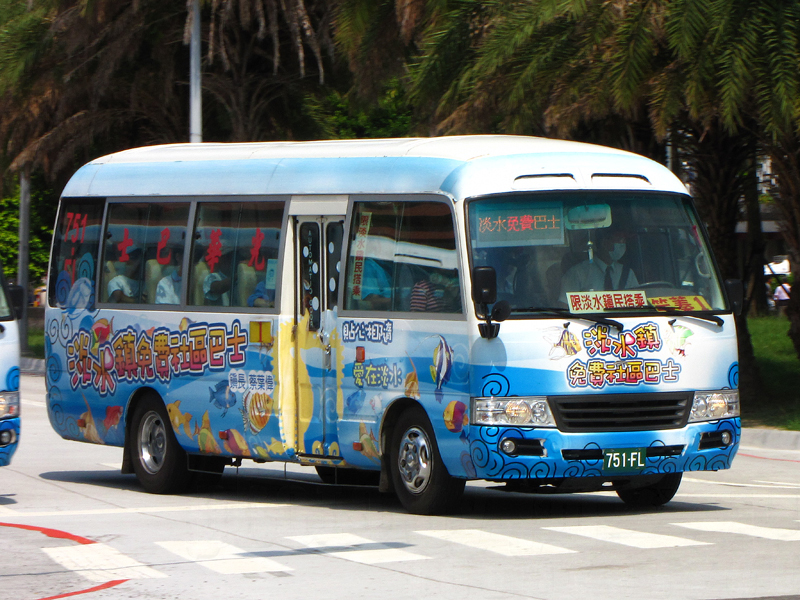 2008 Toyota Coaster 751-FL of Kuang-Hua Bus